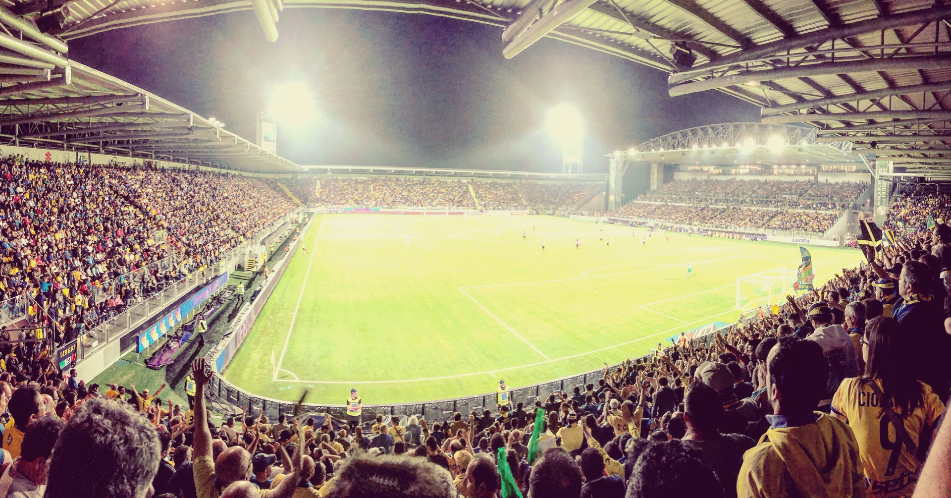 Benito Stirpe Stadium, view from the North Stand (Frosinone-Foggia 2-2, 18/05/2018)